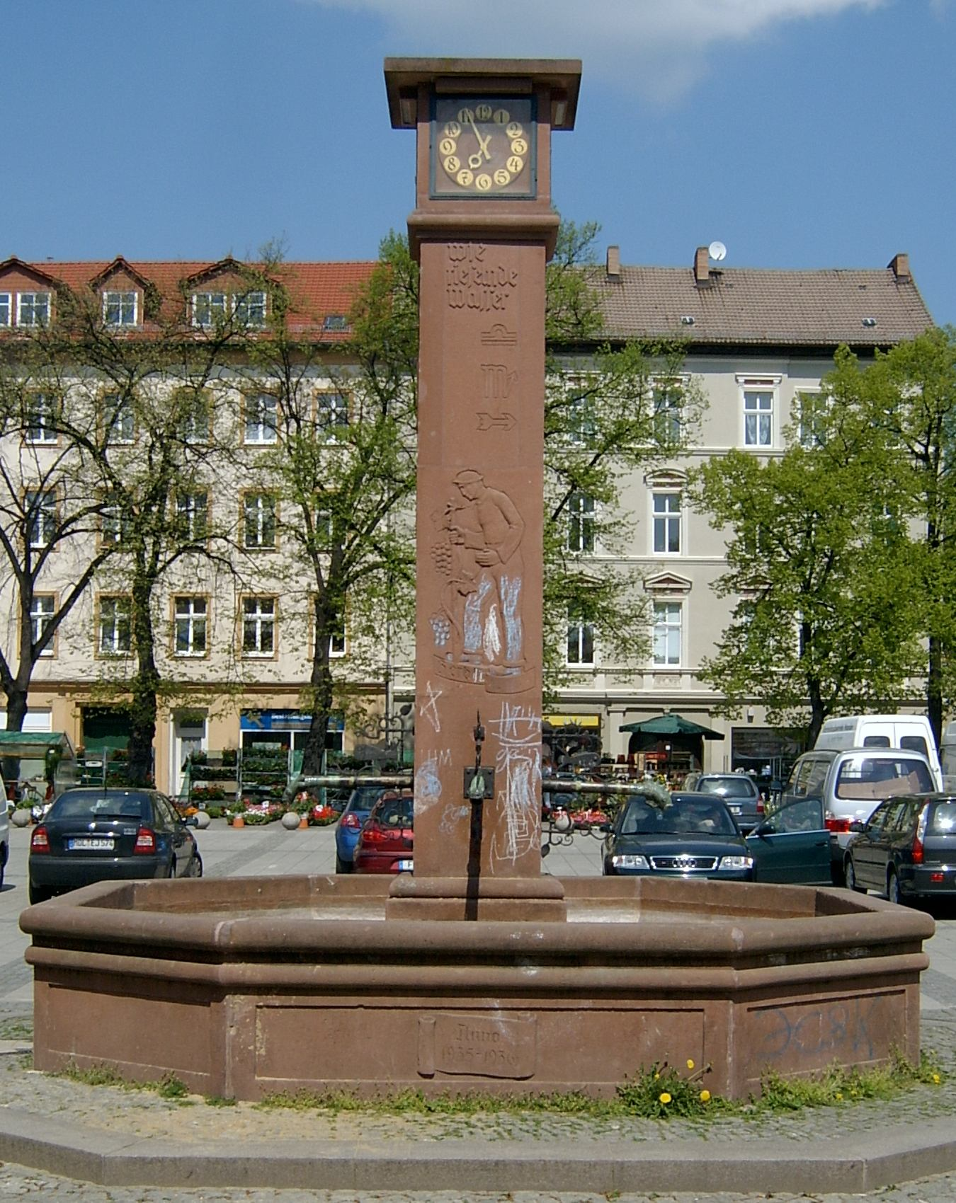 Clock and seasons fountain on square Leipziger Platz in Frankfurt (Oder), Brandenburg, Germany